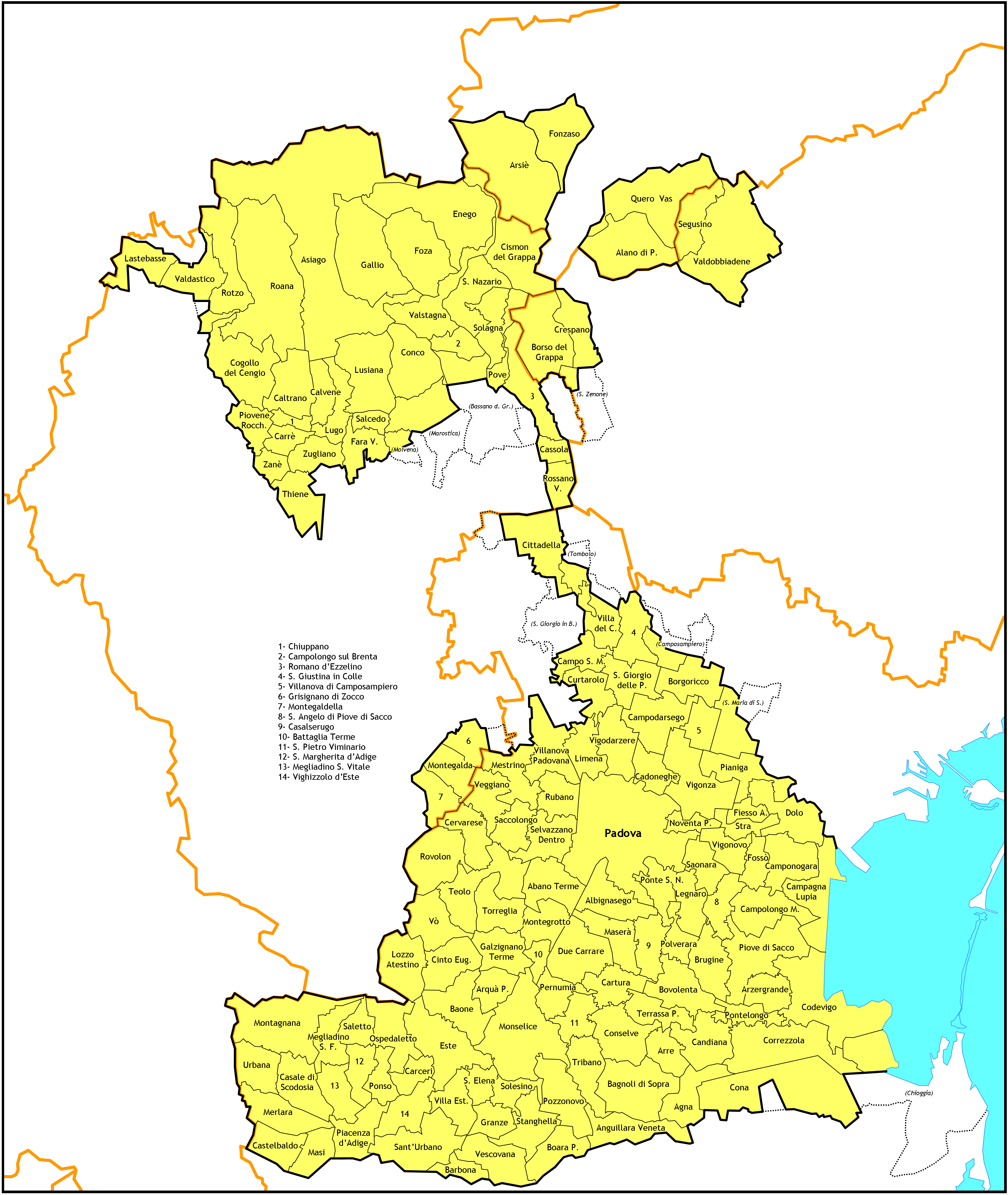 Map of Padua's Diocese